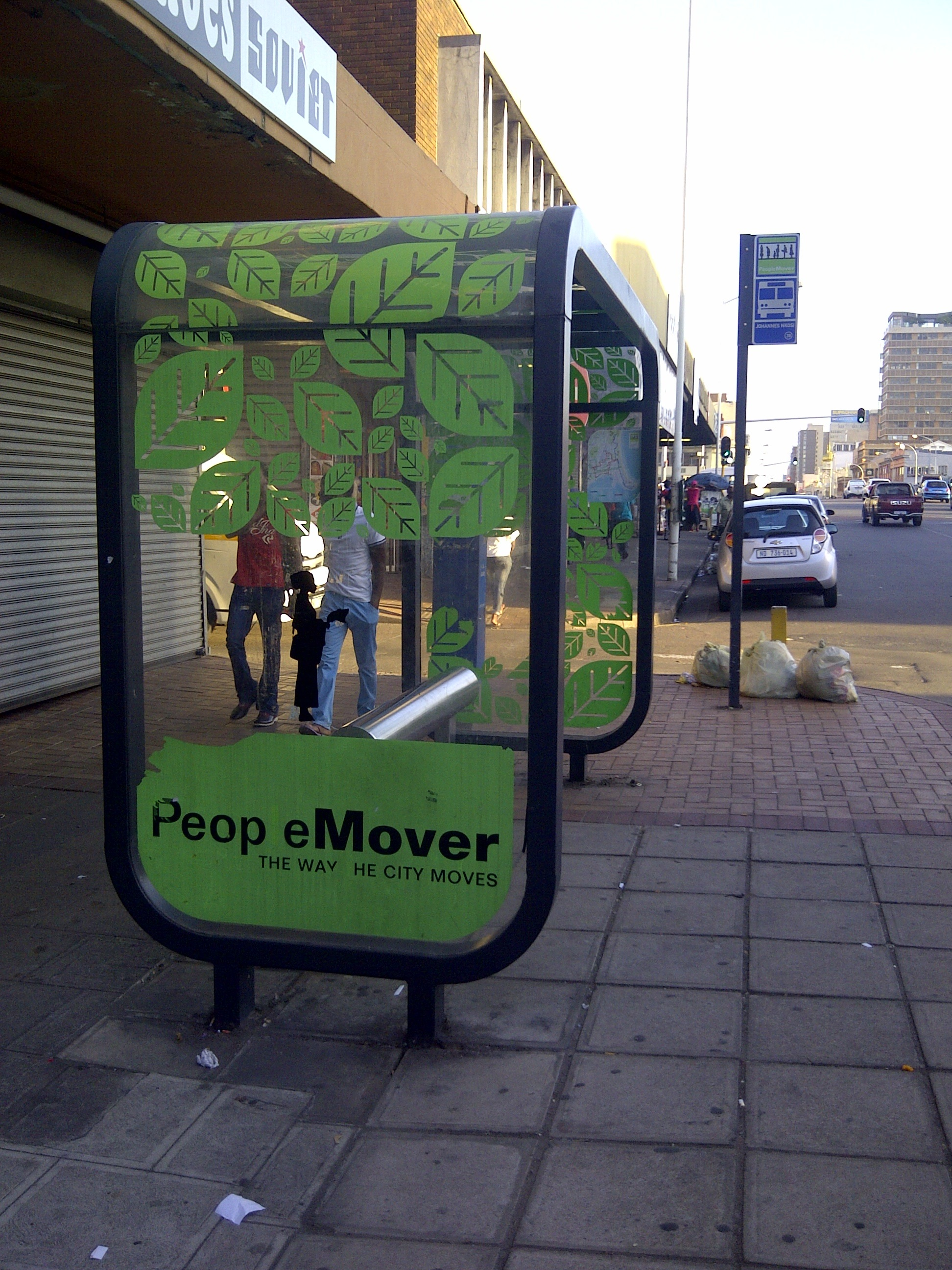 Johannes Nkosi Rank